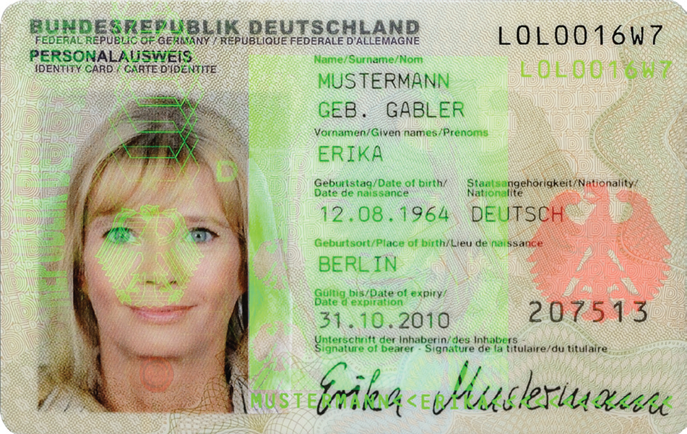 Security features of a German identity card since November 2010